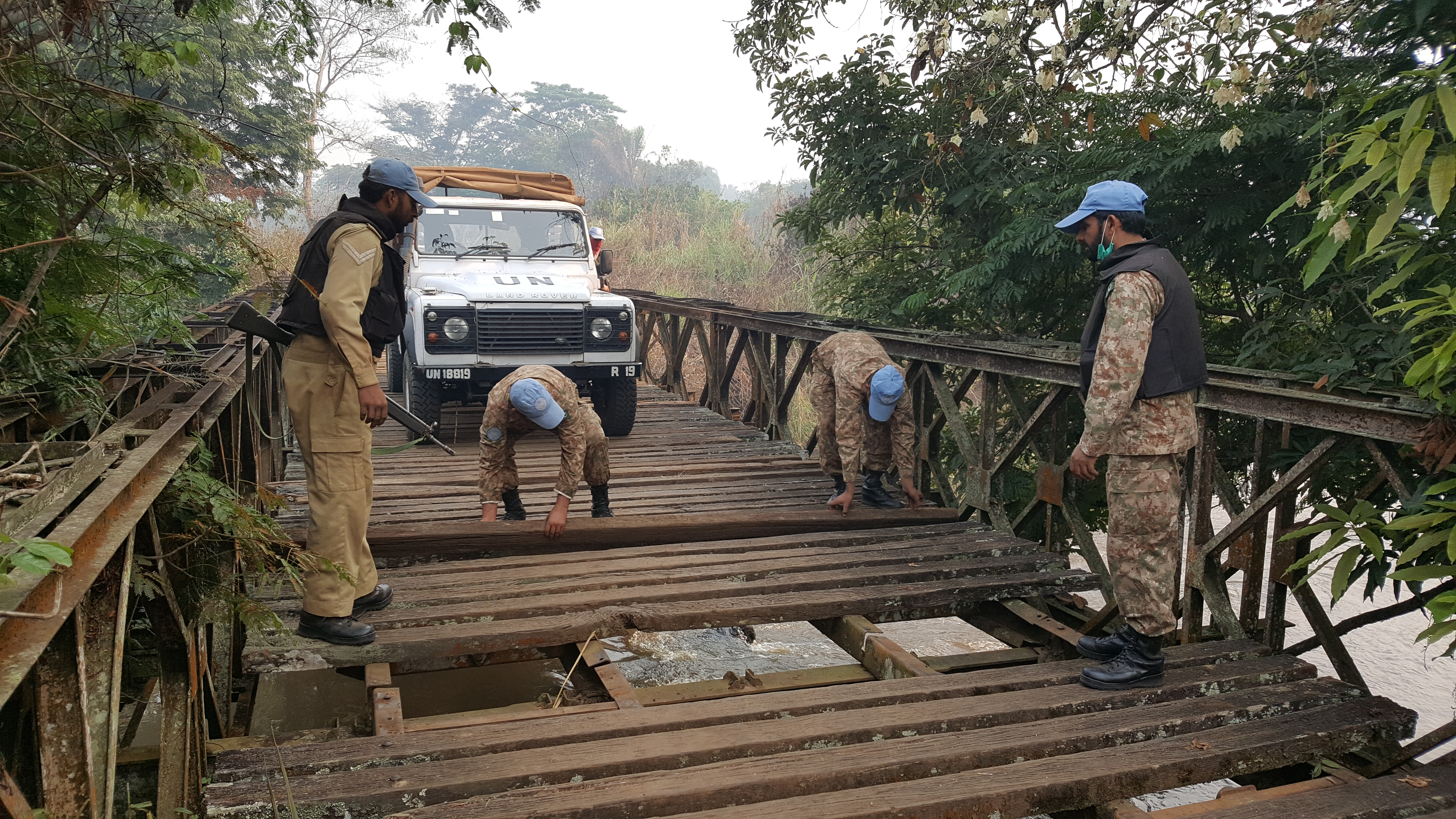 The Pakistani contingent of MONUSCO on patrol in Central Kasai, Democratic Republic of the Congo.